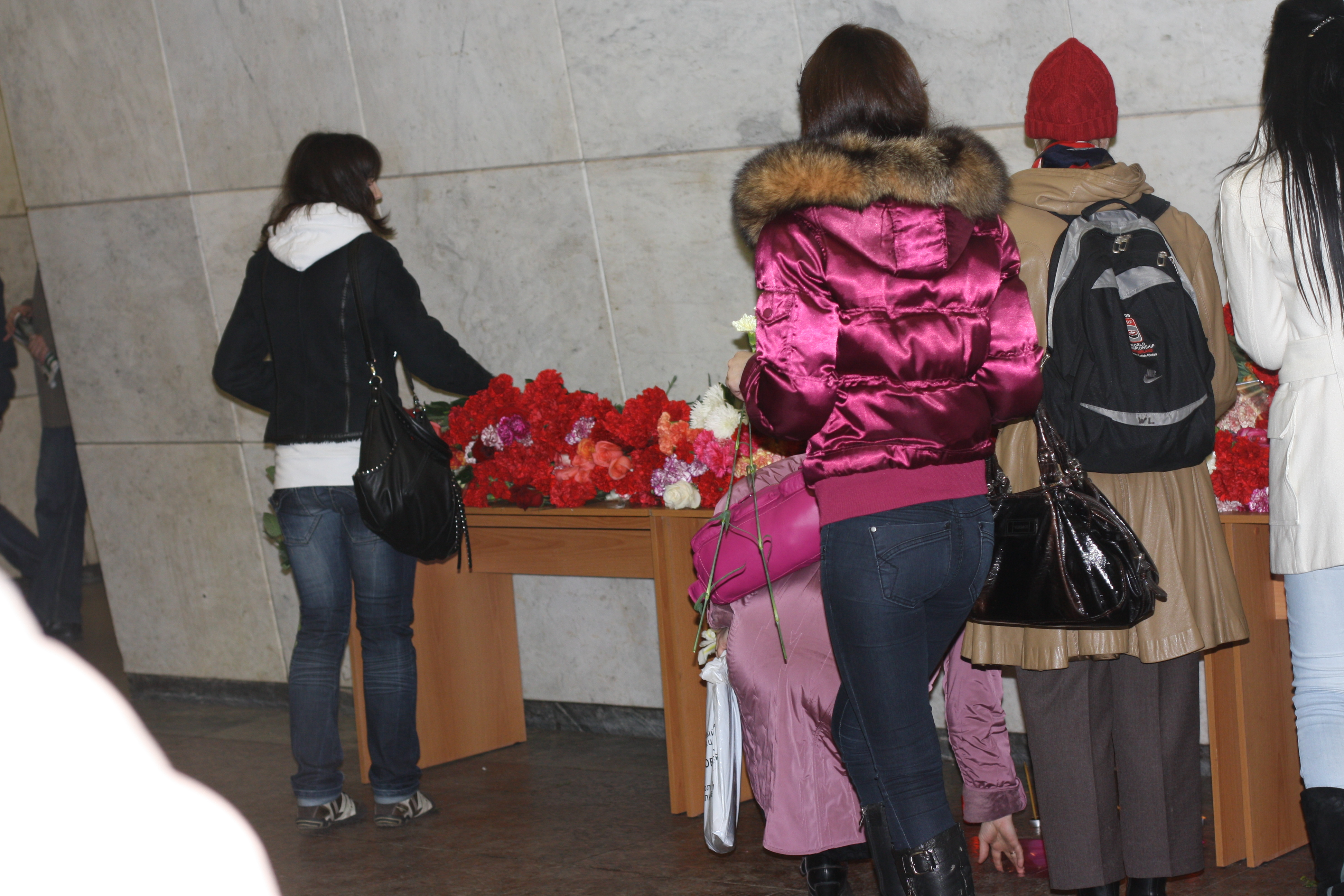 Flowers at "Lubyanka" Moscow metro station in honor of the people killed in terrorist attack